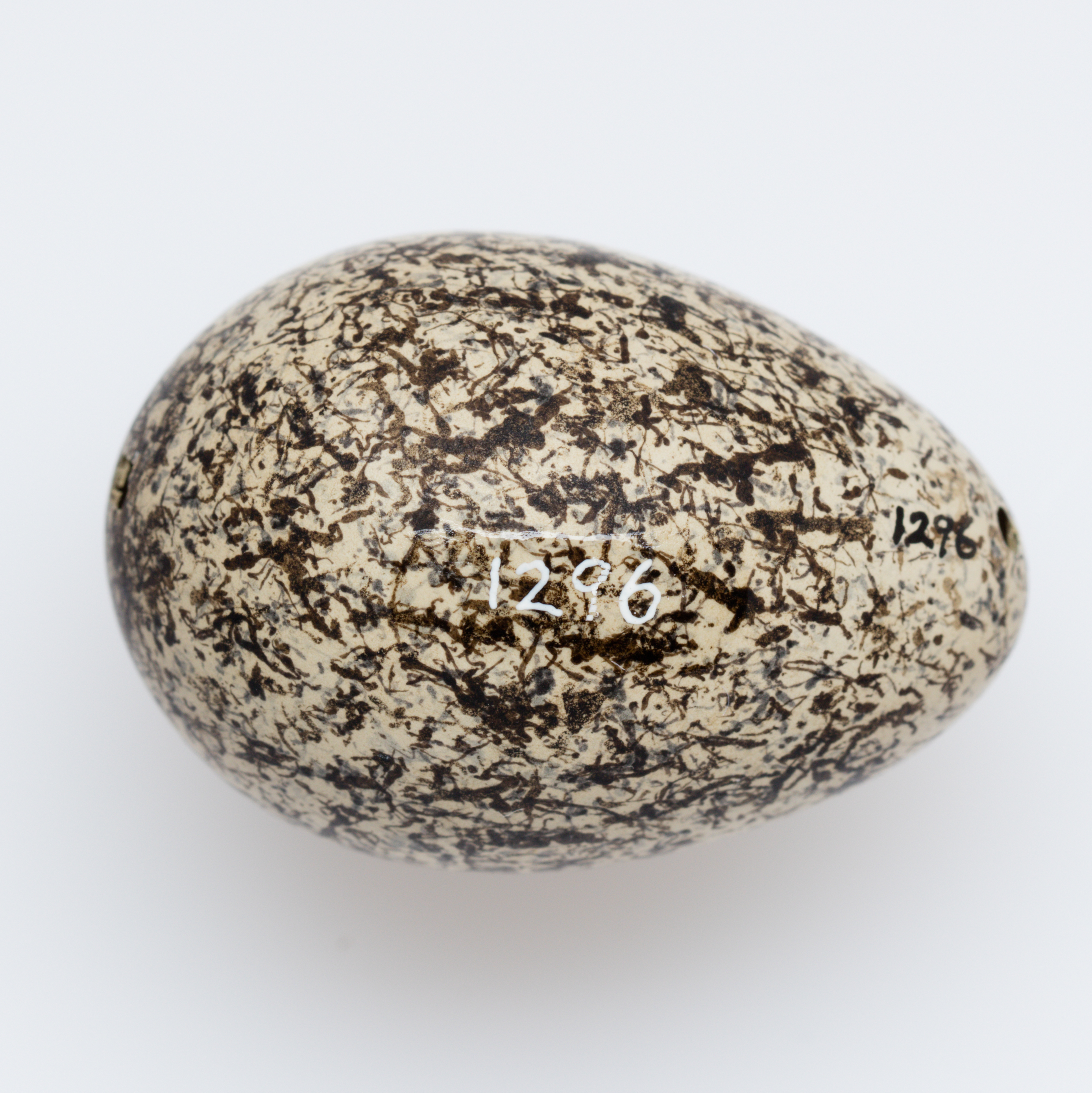 Shore plover, Thinornis novaeseelandiae, egg in the collection of Auckland Museum